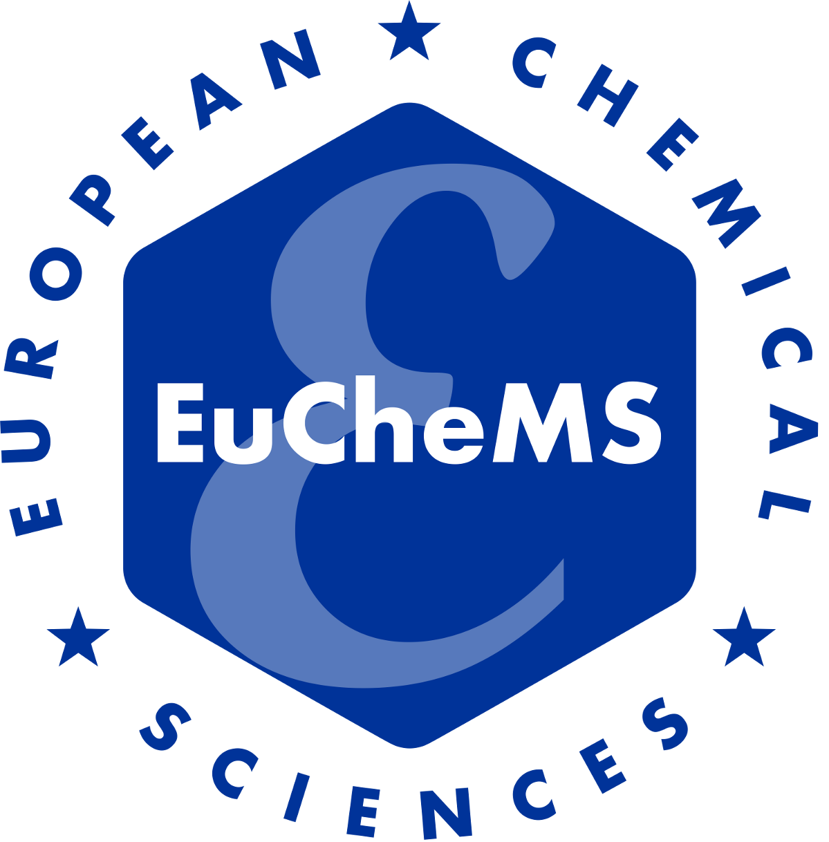 Old EuCheMS logo, quadratic, used until August 2018